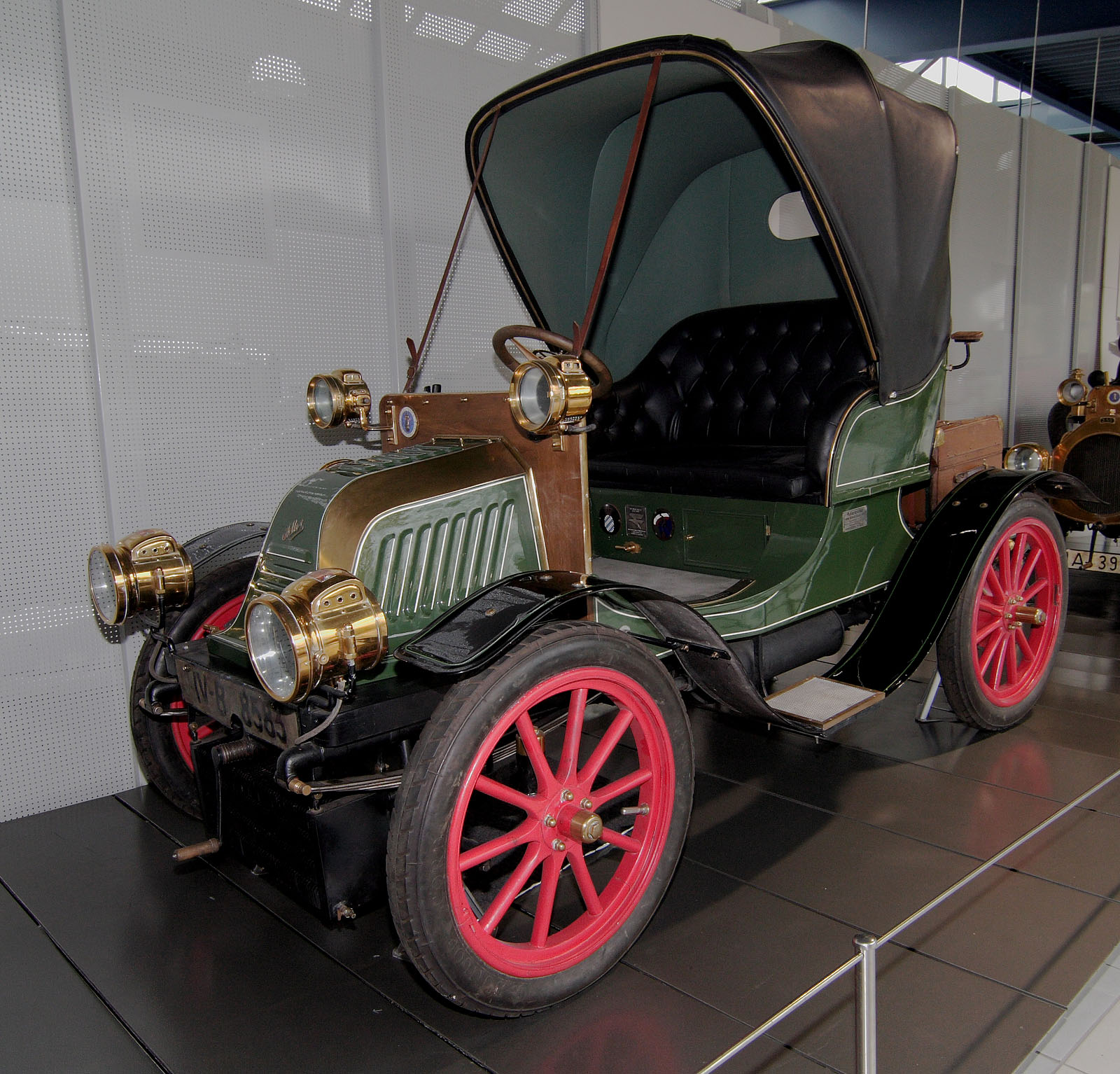 Adler car from 1903; Photo made in [1]